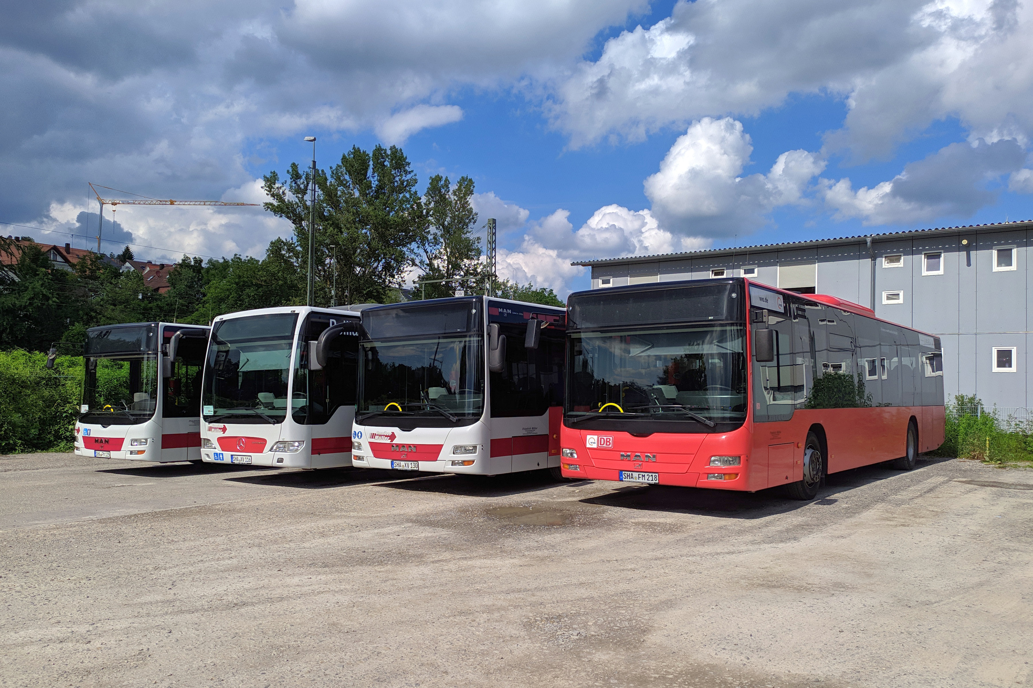 City busses of FMO parked near Marbach station